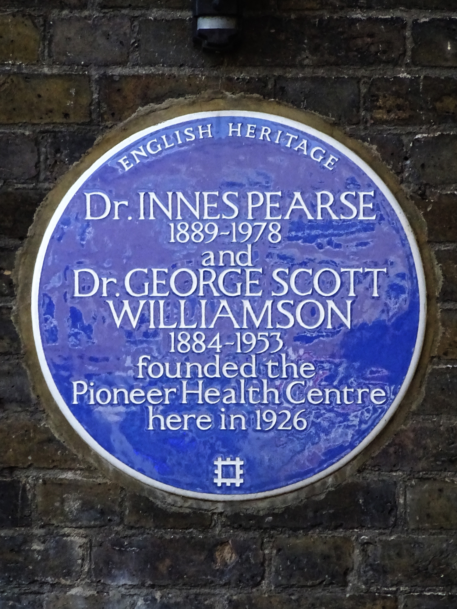 Blue plaque erected in 2009 by English Heritage at 142 Queen's Road, Peckham, London SE15 2HP, London Borough of Southwark